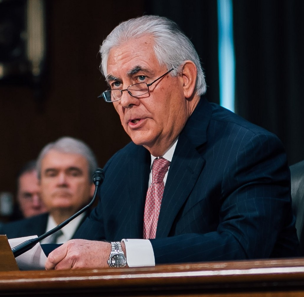 Rex Tillerson, President-elect Donald Trump's choice for Secretary of State, at his confirmation hearing